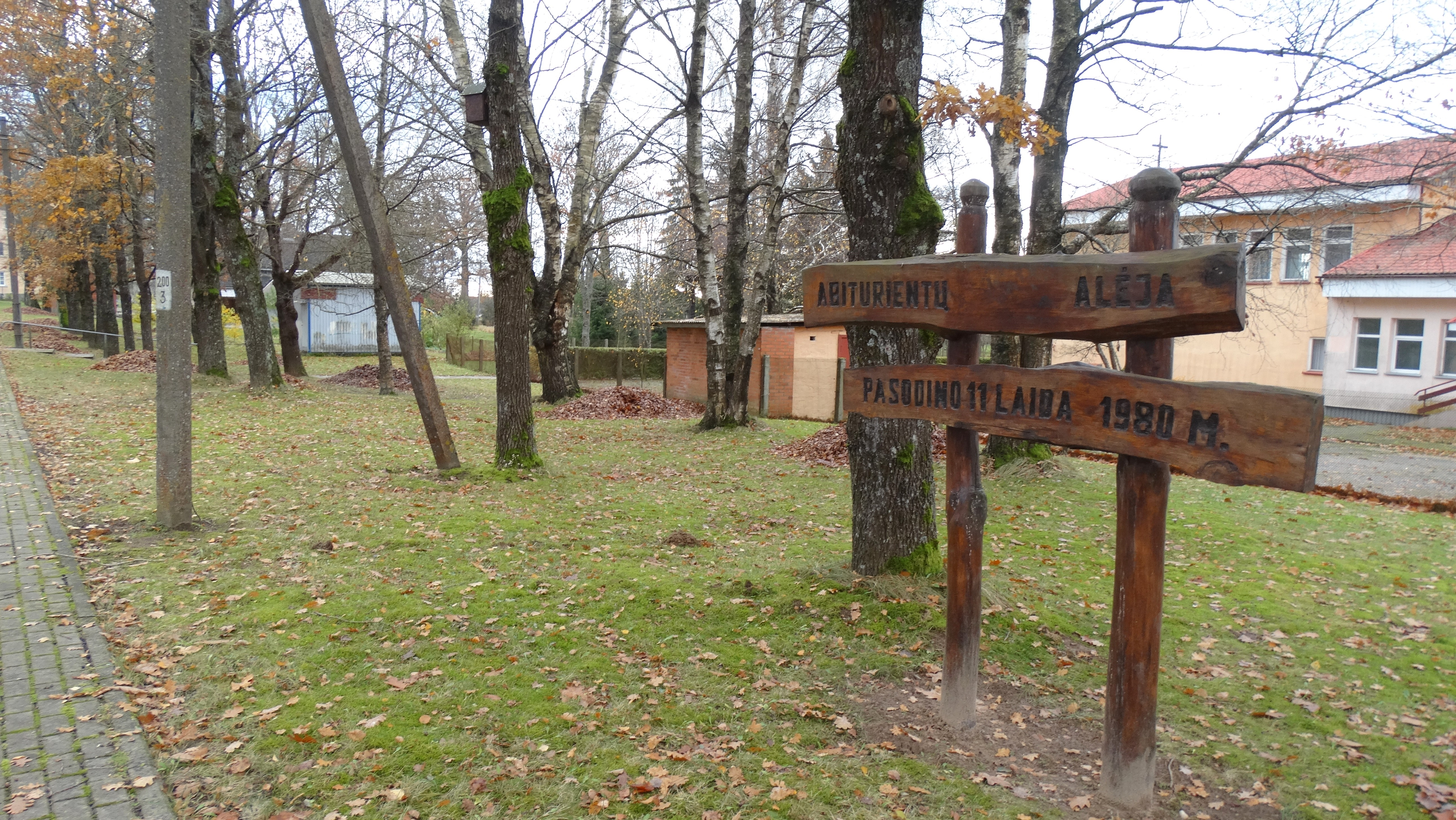 Planted trees by school graduates, Katyčiai, Šilutė district, Lithuania